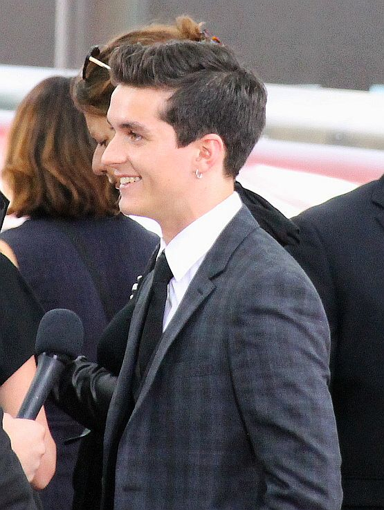 Actor Fionn Whitehead attending the World Premiere of Christopher Nolan's Dunkirk in London.